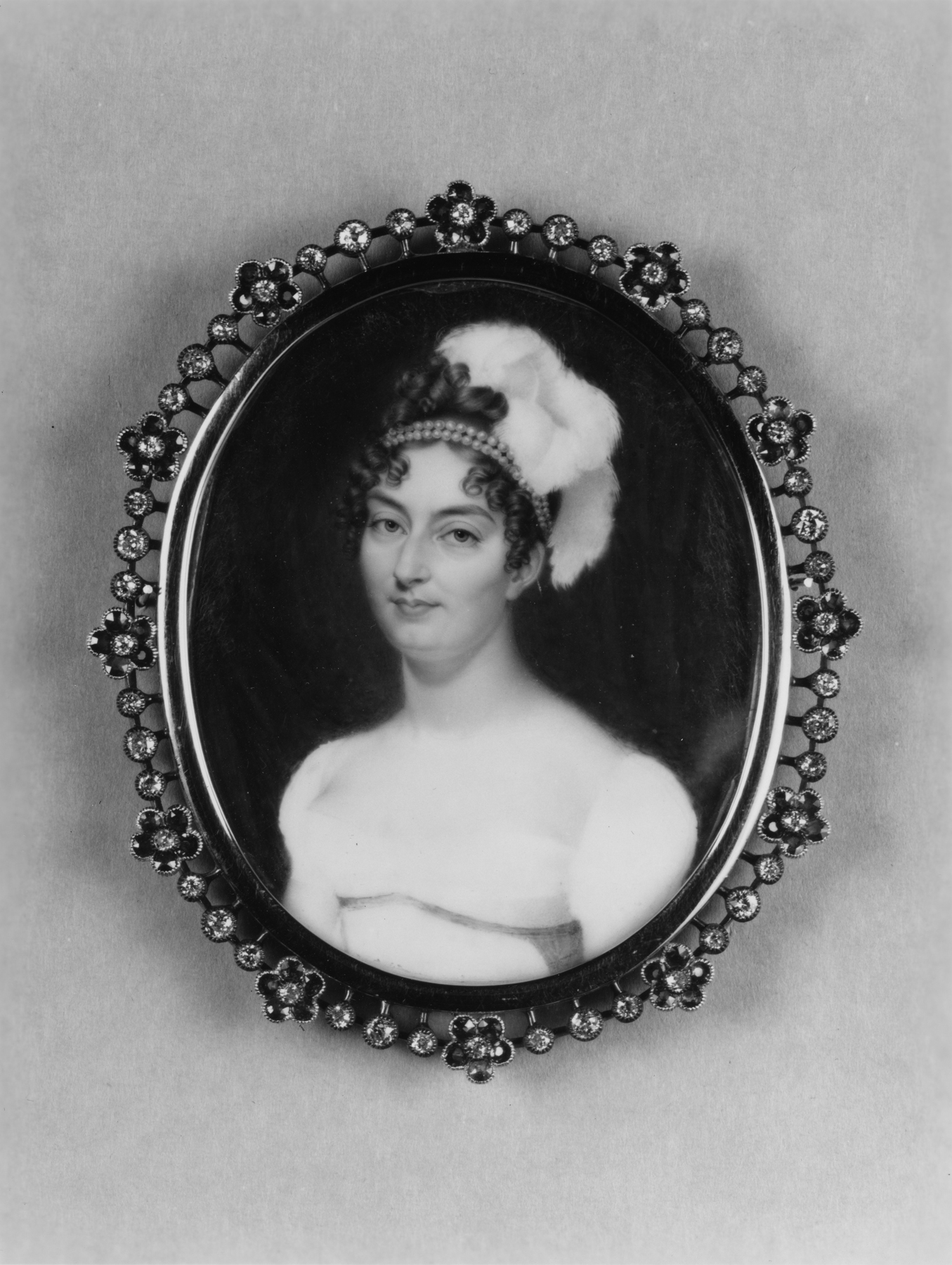 Marie Thérèse Charlotte (1778-1851), Louis XVI's daughter, married her cousin Louis Antoine, duke of Angoulême, the son of Charles X.